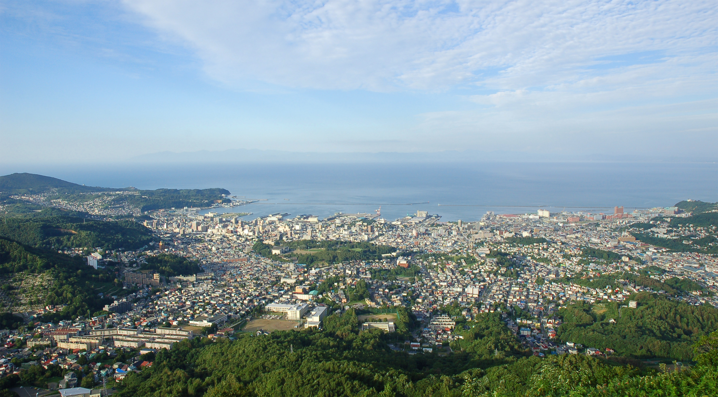 Vista of Otaru from Mt. Tengu, Hokkaido. September 2010.